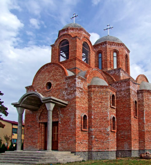 Serbian-Orthodox Church of Jabuka (2011-2014). Public sacral building of Jabuka village, Pančevo, Serbia. Cultural property of the living population of the village. First Upload 19th November 2014 to Panoramio.